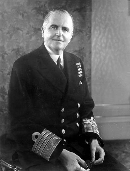 Admiral Sir Hugh Binney, Governor of Tasmania from 1945–1951.